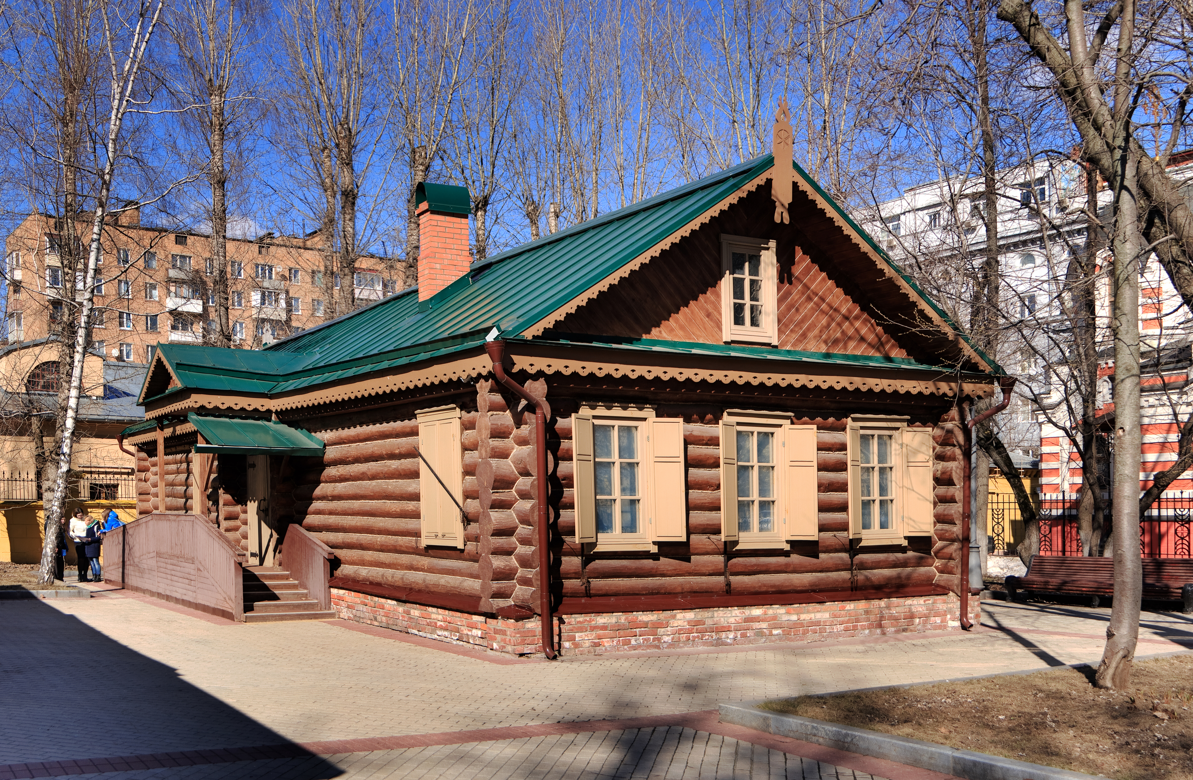 Memorial complex "Kutuzovskaya Izba", Moscow